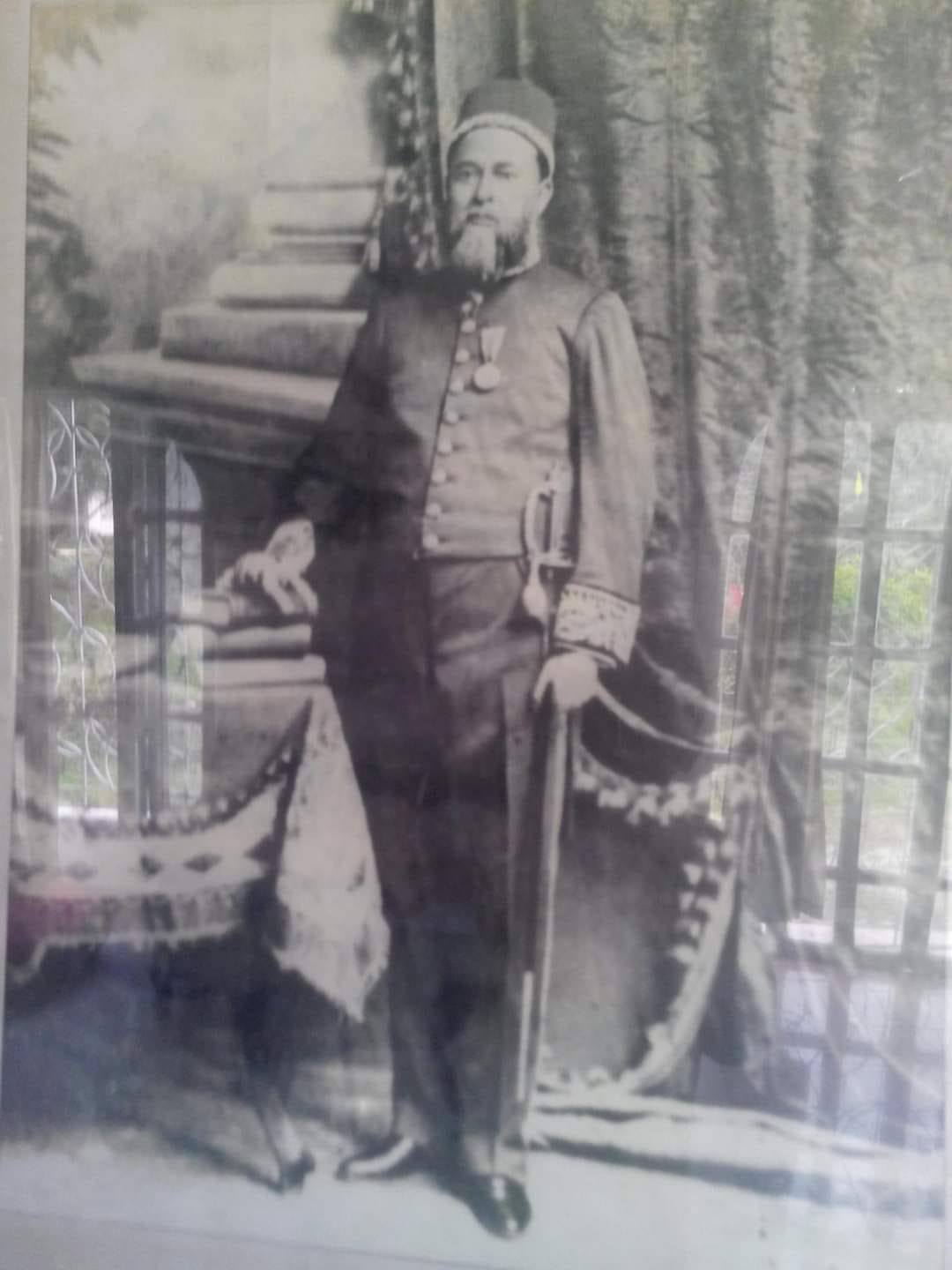 Syed Nawab Ali Chowdhury (1863-1929)(সৈয়দ নওয়াব আলী চৌধুরী). Famous Muslim Leader in Bangla during British period.